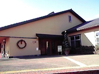 This is the Matsusaka Quotient Association in Matsusaka Agricultural Park Bellfarm in Matsusaka, Mie, Japan.